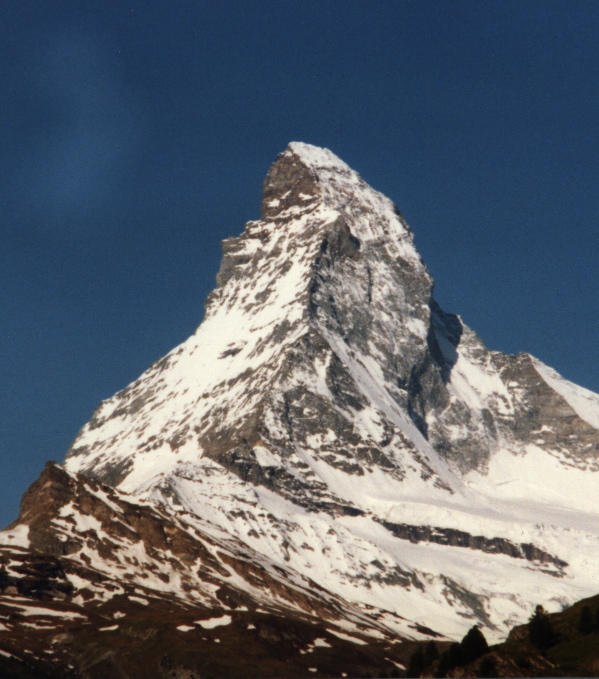 Photo of the Matterhorn from Zermatt